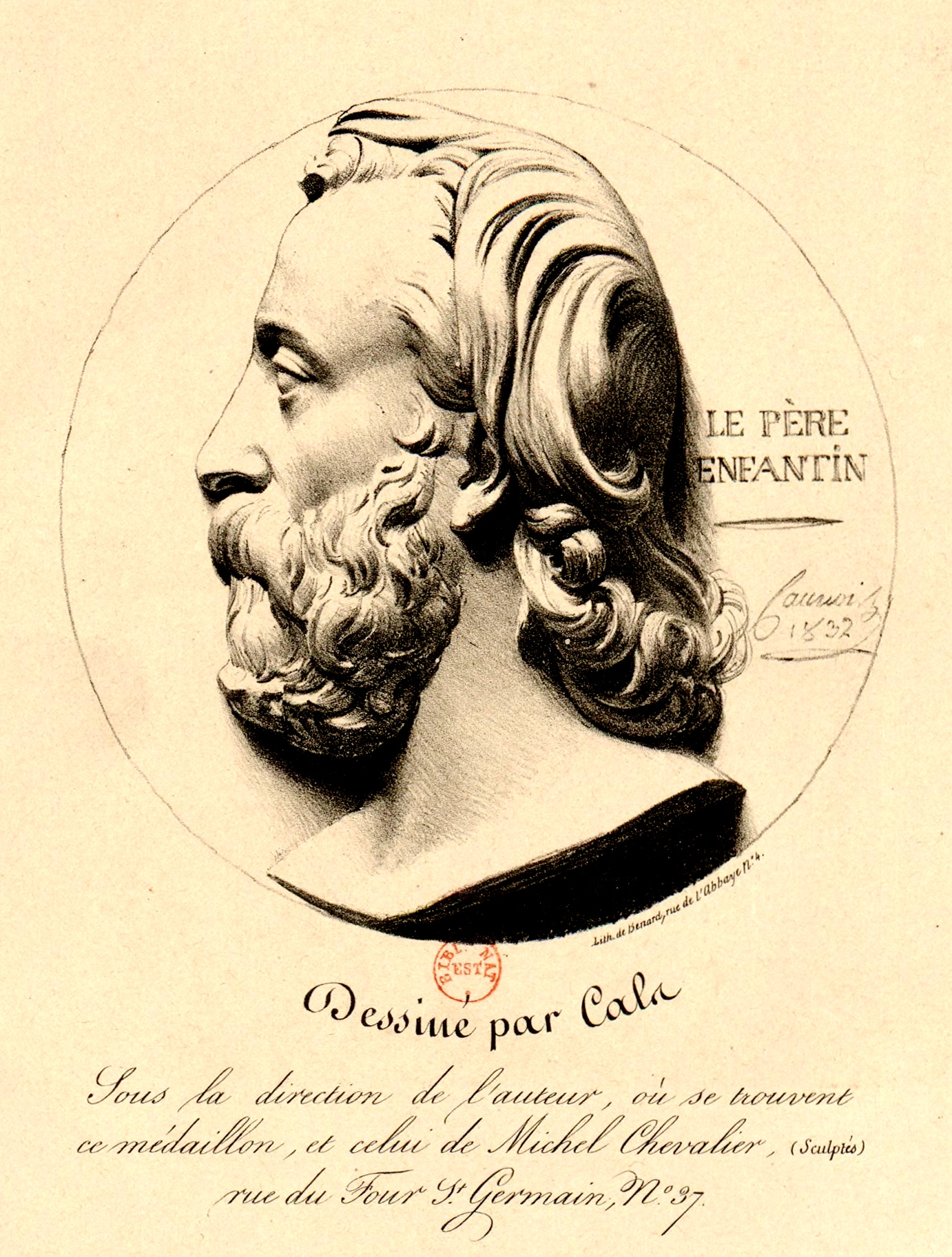 Prosper Enfantin (1796–1864), French social reformer, one of the founders of Saint-Simonianism. Caunois. Illustrateur. Éditeur : Lith. de Bénard, rue de l'Abbaye, N° 4